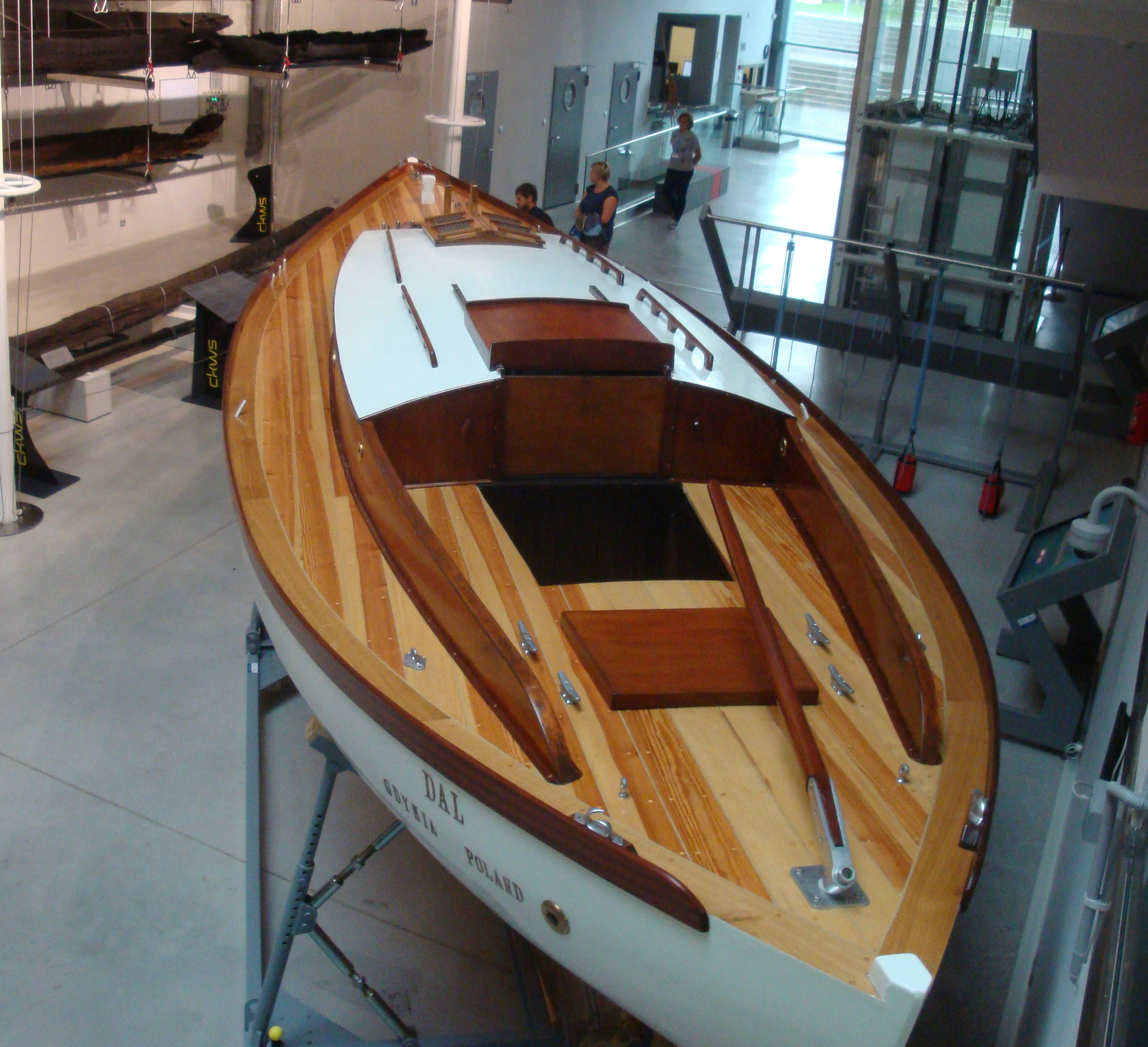 Dal - sailing yacht, used by Andrzej Bohomolec, Jan Witkowski and Jerzy Świechowski, who were the first Poles, crossing Atlantic on sailing yacht in 1933-1934. Presently yacht is exhibited in Shipwreck Conservation Centre (Centrum Konserwacji Wraków Statków),( branch of National Maritime Muzeum) in Tczew, Poland